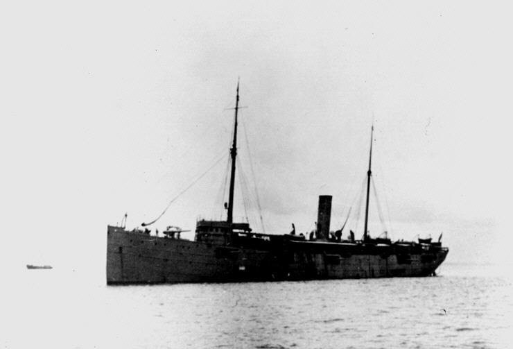 The U.S. Navy auxiliary cruiser USS Dixie, circa in 1898, during Spanish-American War.